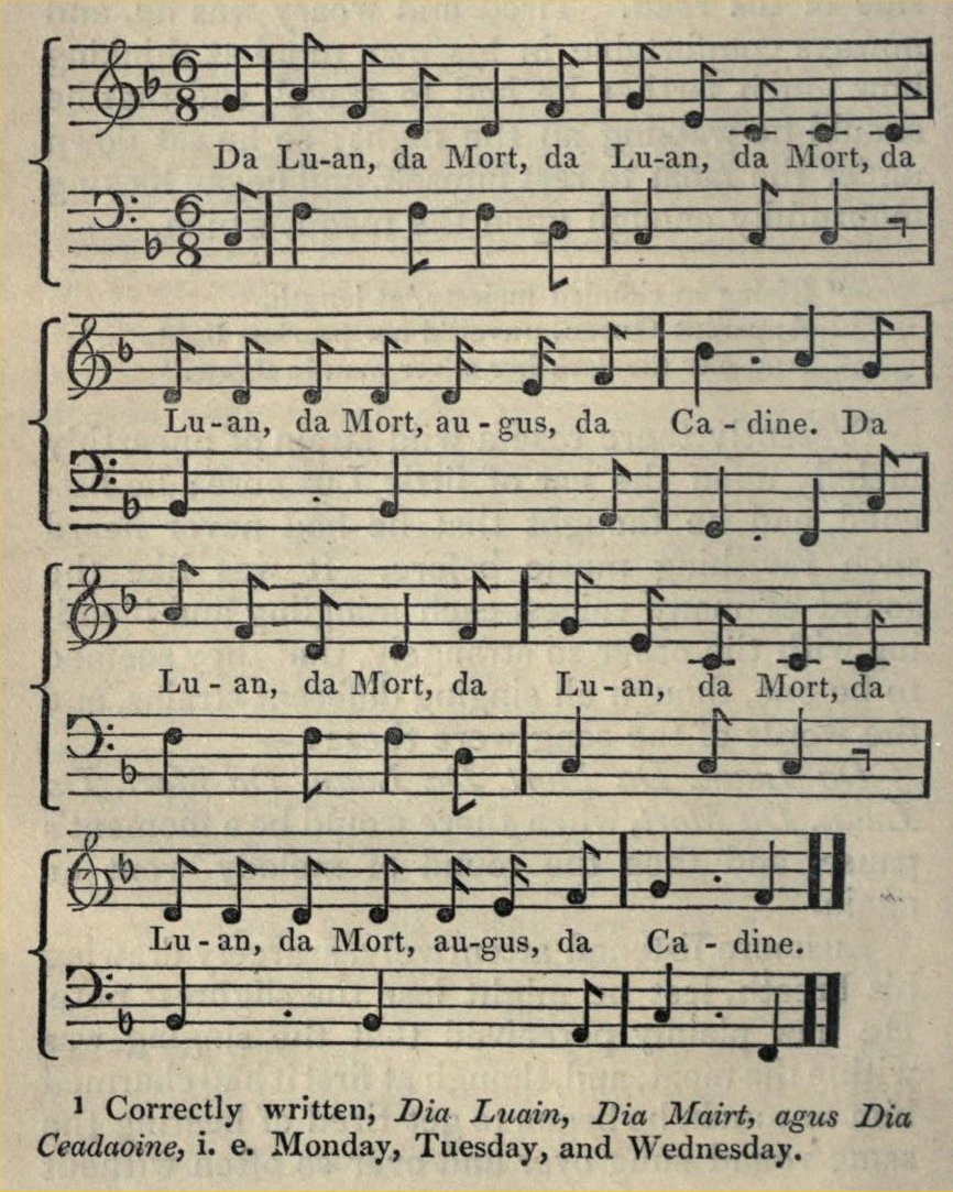 Musical score to "Da Luan", the song in "The Legend of Knockgrafton", supposedly sung by Irish storytellers.